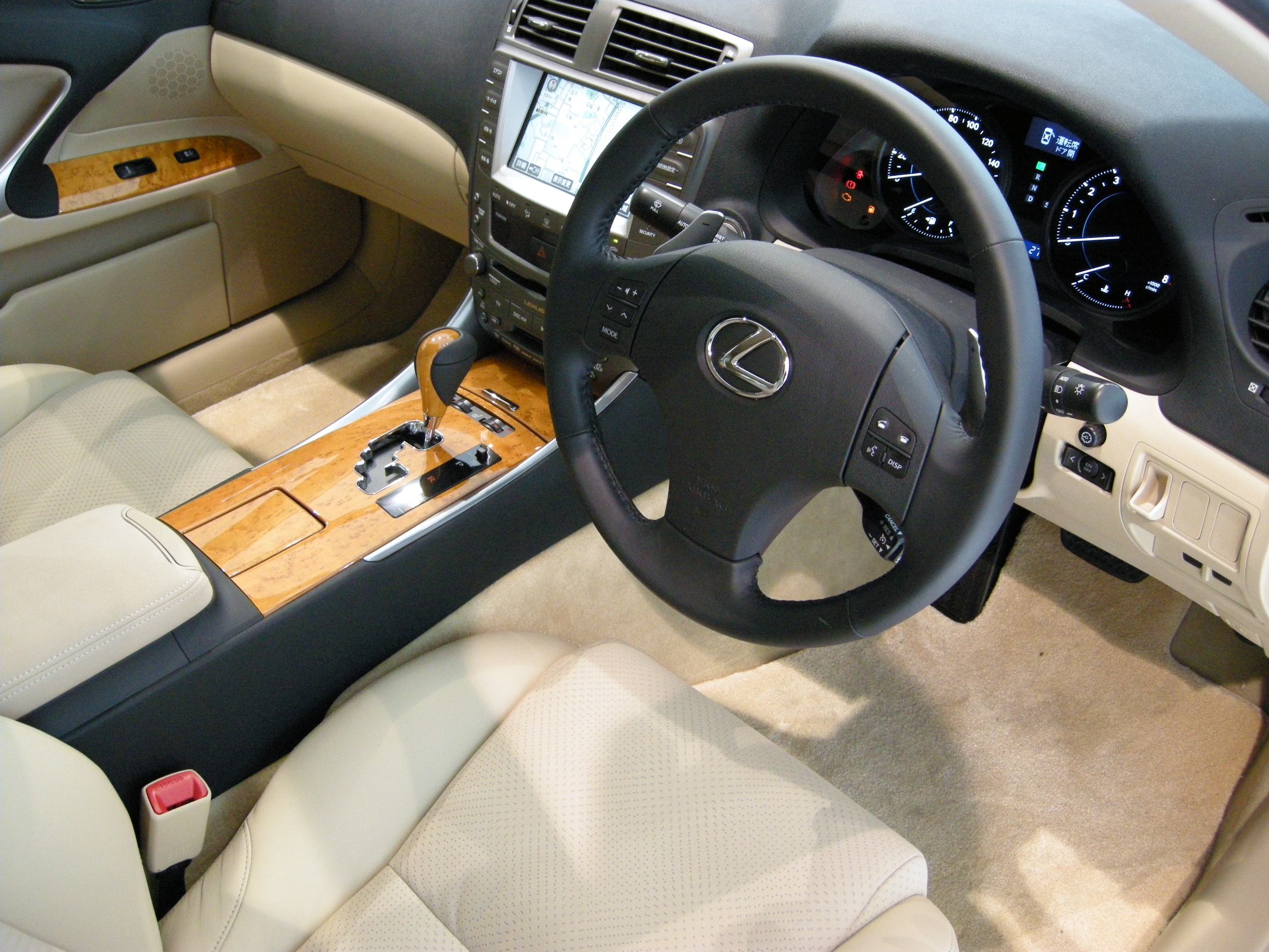 Lexus IS350 Interior